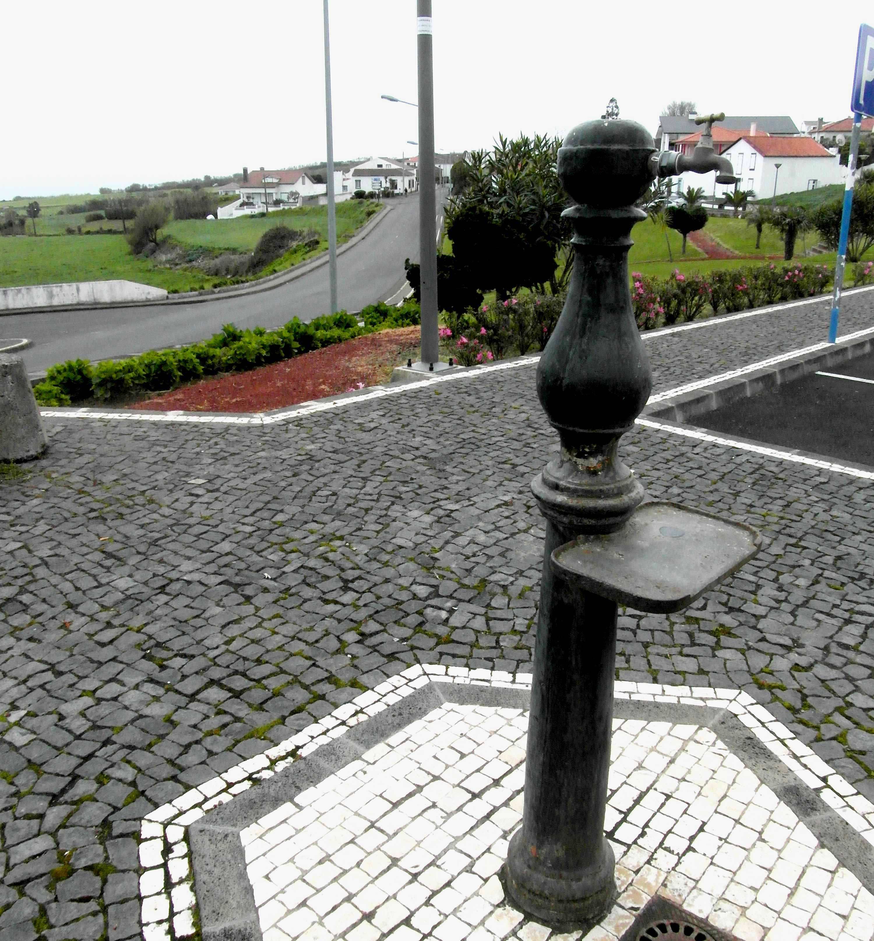 Fontain (Fazenda)